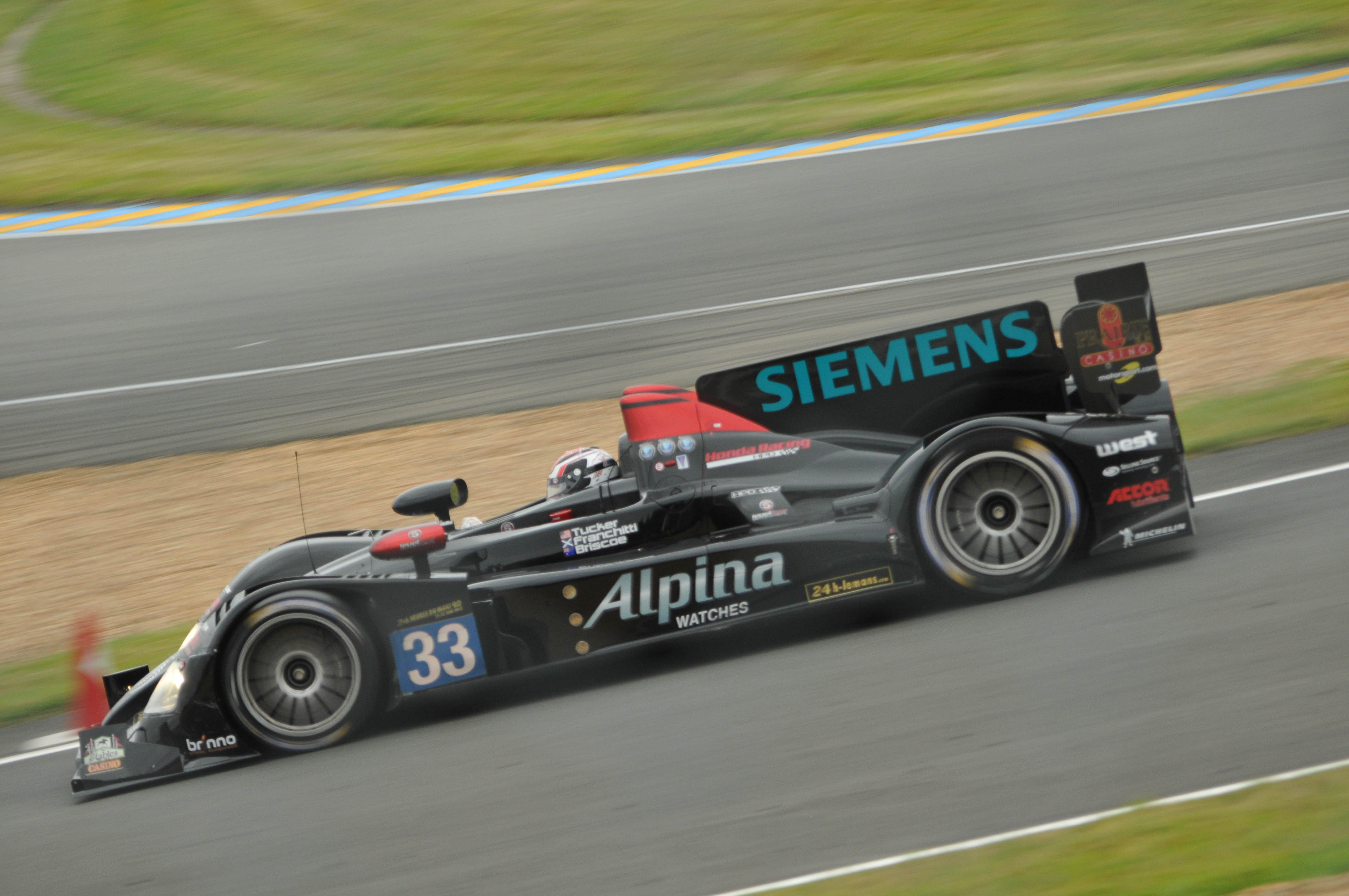 Le Mans 2013 (205 of 631)